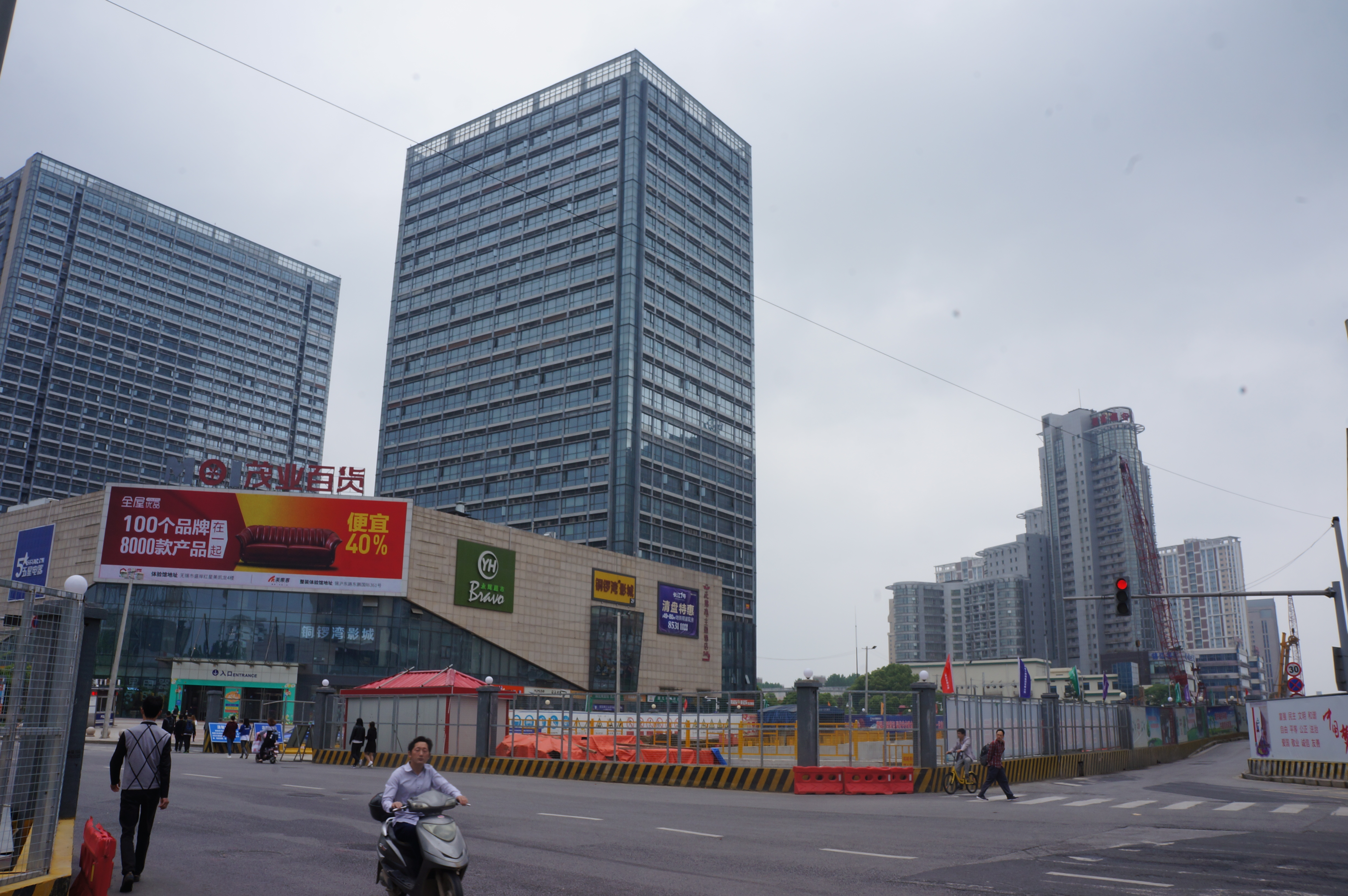 201705 Maoye New District. New District seems to be the Gubei in Wuxi